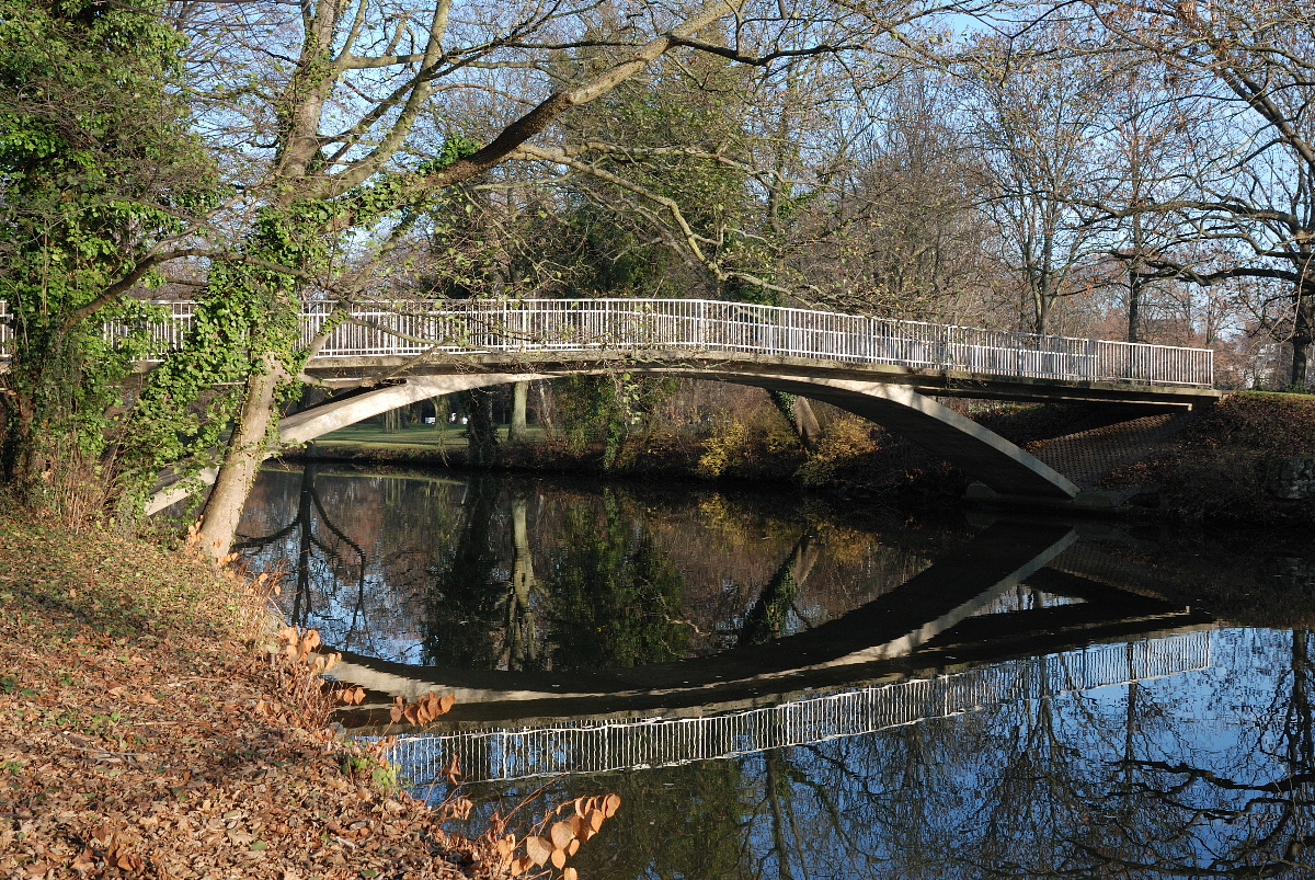 Drachen-bridge in Brunswick